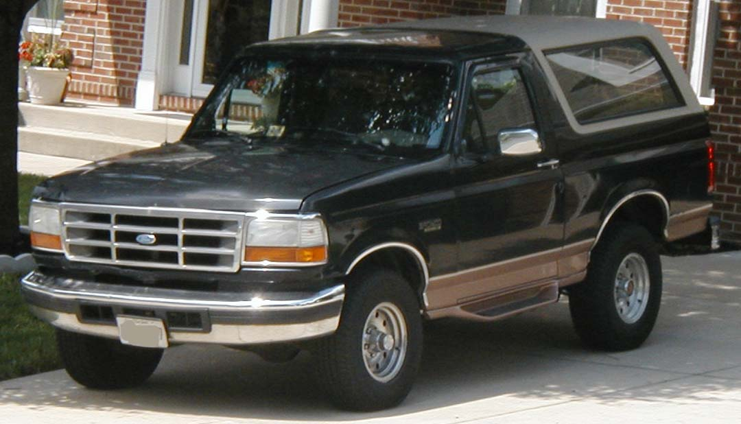 1992-1996 Ford Bronco photographed in USA.